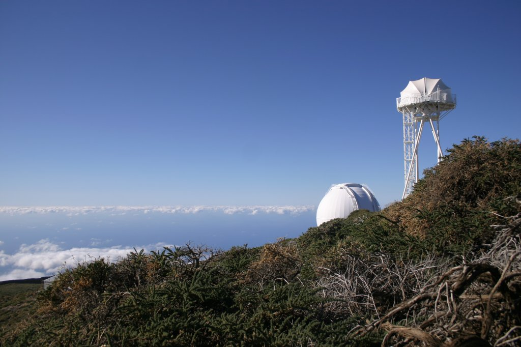 Made and released into the public domain by Tim van Werkhoven. This picture shows (from left to right) the dome of the William Herschel Telescope and the Dutch Open Telescope.